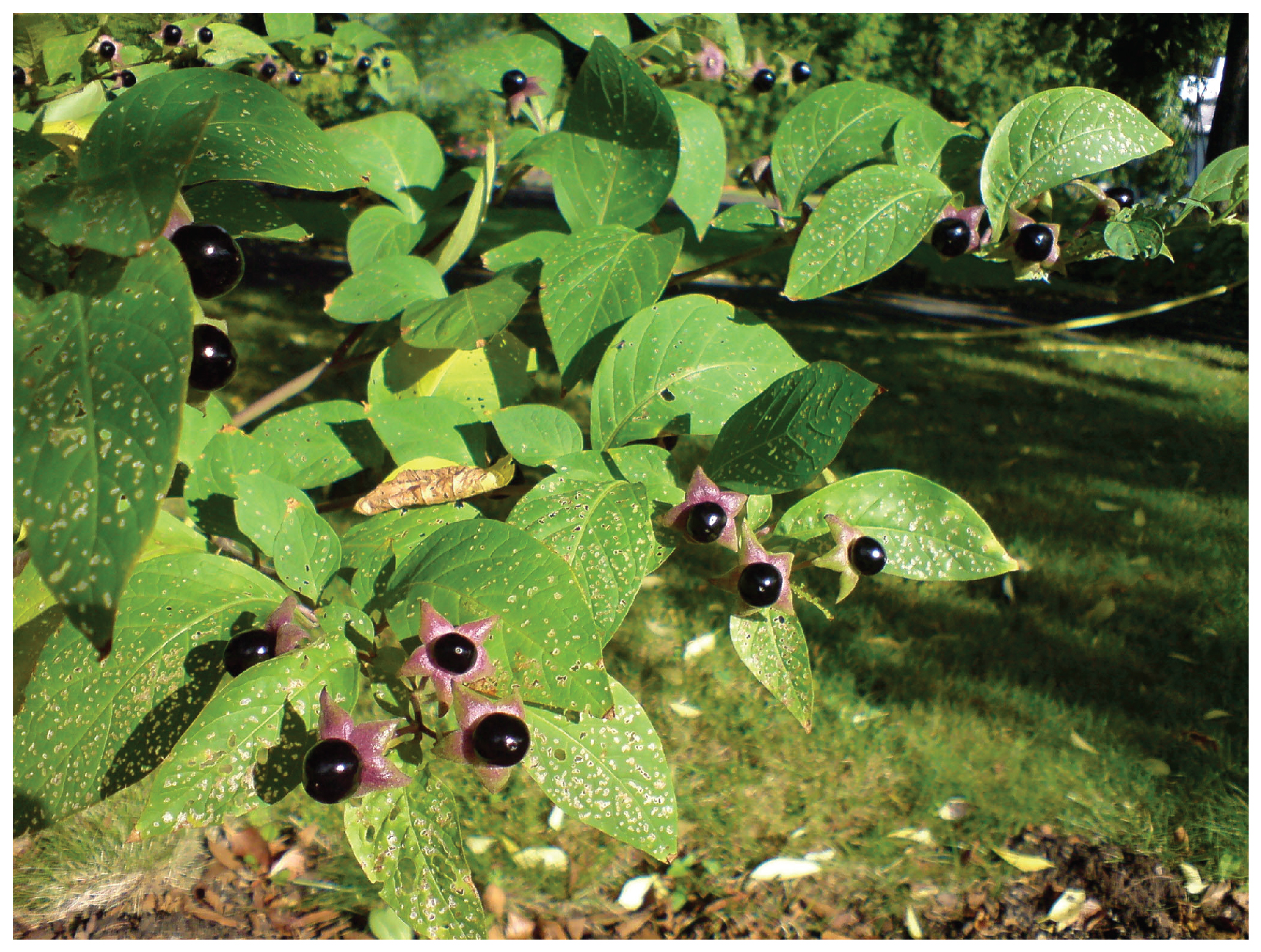 Illustration from Anatomy & Physiology, Connexions Web site. Jun 19, 2013.